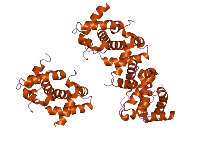 Cartoon representation of the molecular structure of protein registered with 1dj8 code.